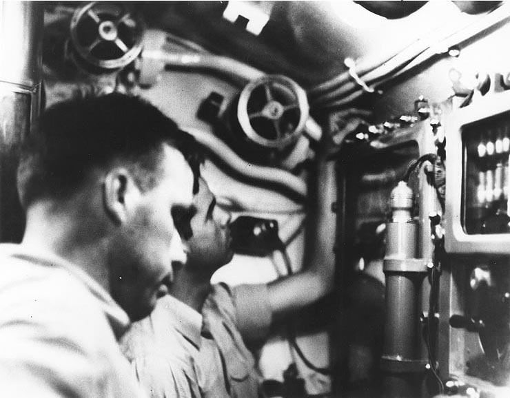 Lieutenant Commander Dudley Morton and Lieutenant Richard O'Kane in the conning tower of USS Wahoo during an attack on a Japanese convoy off New Guinea, 26 Jan 1943